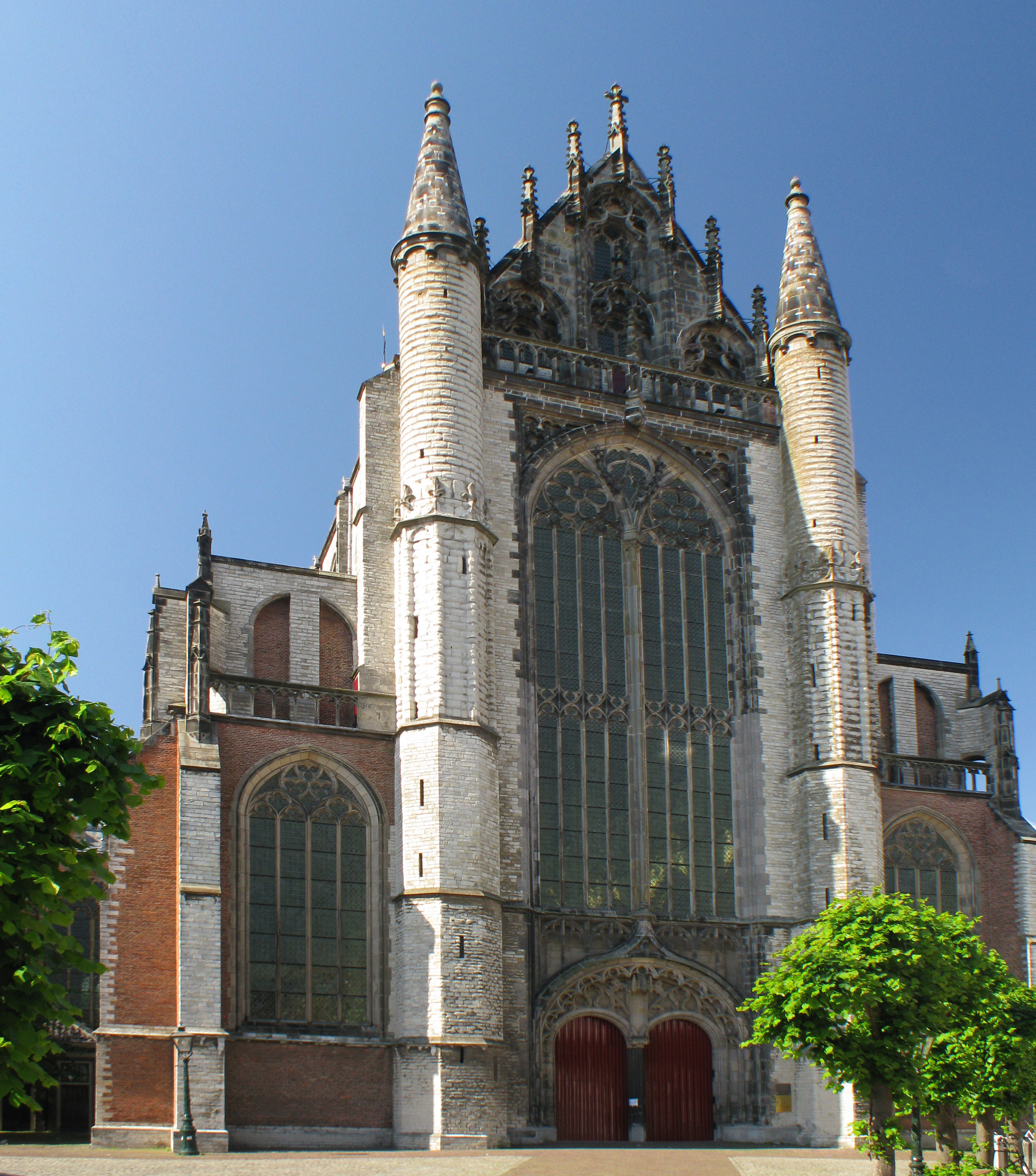 Hooglandse Kerk in Leiden